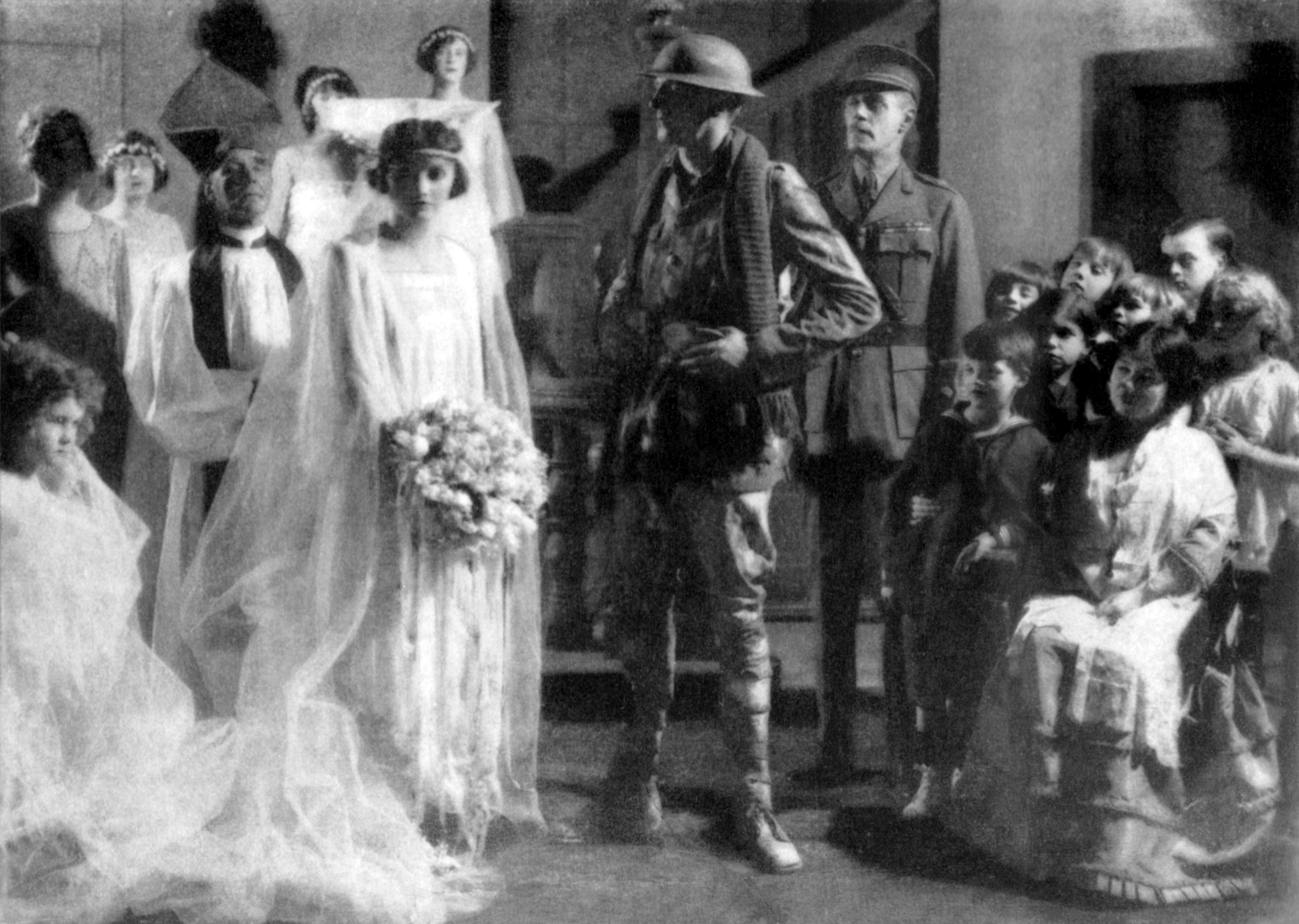 Photograph of Katharine Cornell in the dream scene of the Broadway production of The Enchanted Cottage